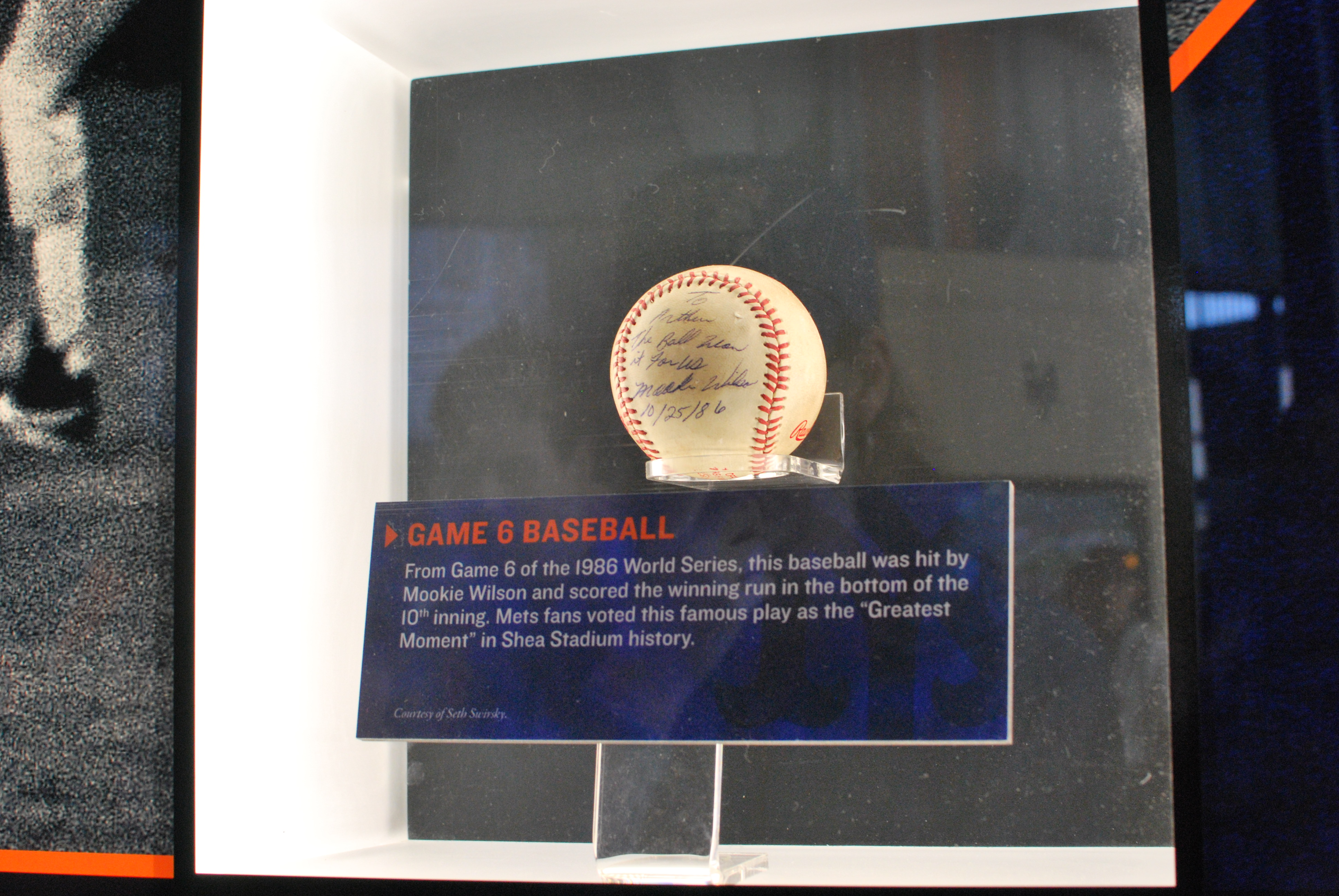 A baseball used in Game 6 of the 1986 World Series